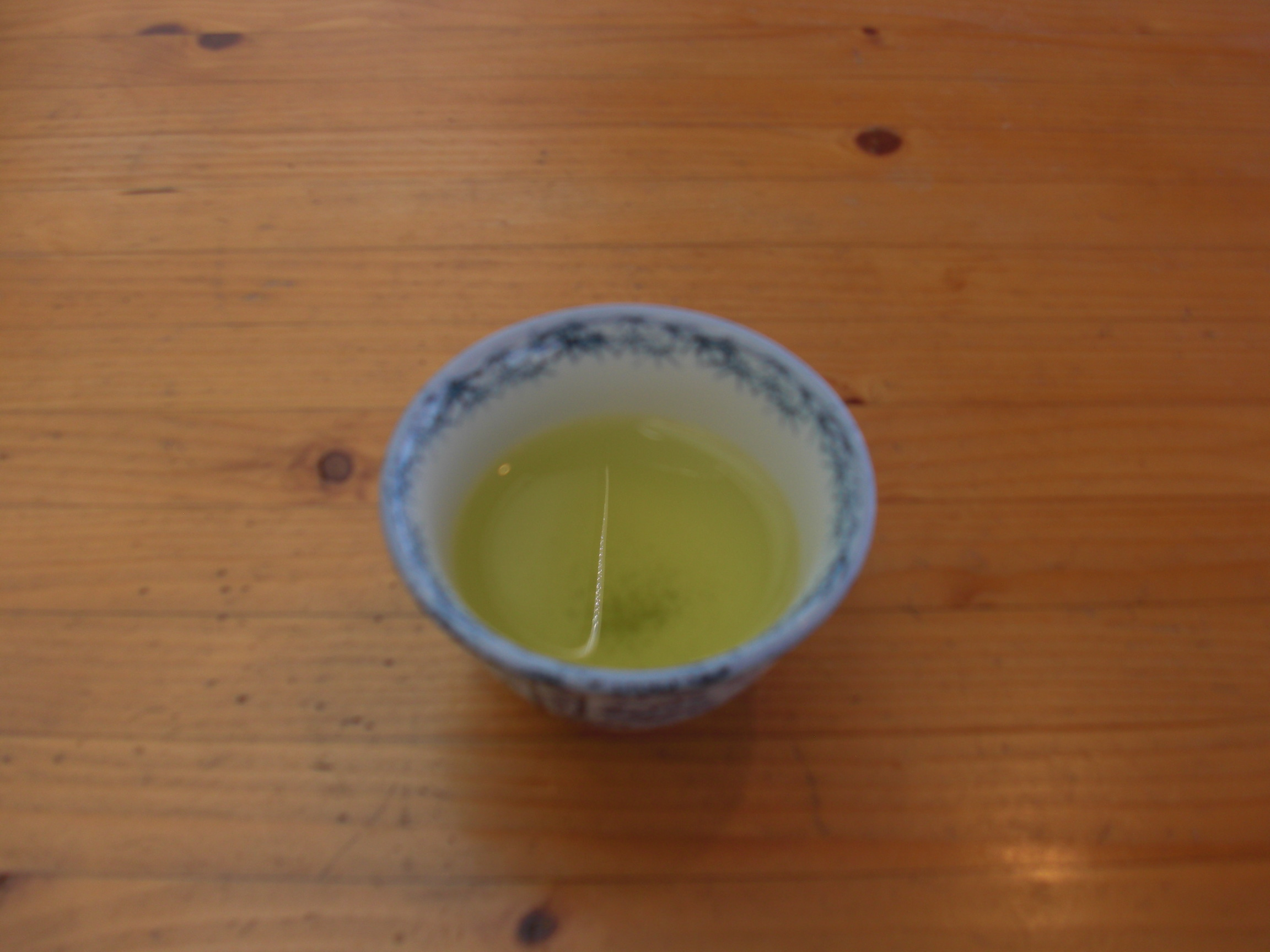 This is Ise tea which is served at Toba Observatory.